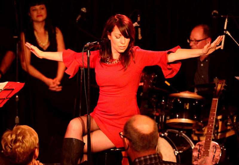 Wendy Lands at Hugh's Room, Toronto - 10/22/2015